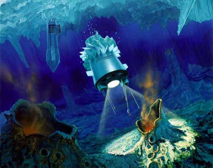 This artist rendering shows a proposed ice-penetrating cryobot and a submersible hydrobot that could be used to explore the ice-covered ocean on Jupiter's large satellite, Europa. Scientists propose first testing these instrument-ladened robots by sending them to Lake Vostok, a subglacial lake in Antarctica.